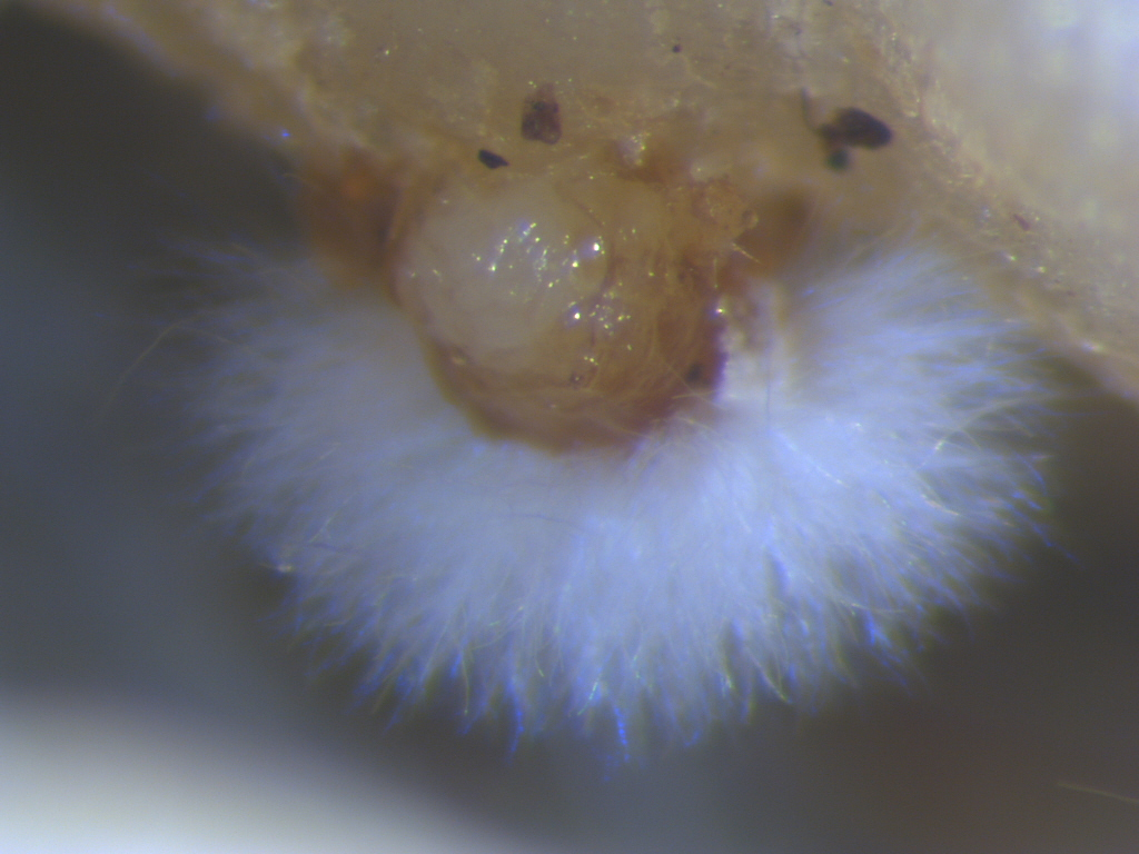 Fungal parasitism of an egg mass of Meloidogyne incognita, the root-knot nematode. This fungus occurs naturally in soils in the Manoa valley in Honolulu, Hawaii. Such fungal pathogens of nematodes typically produce chitinase, the enzyme that degrades the chitin that comprises the nematode egg shells. The fungus colonizes and kills the eggs rapidly, here the mycelial masses and strands were produced in less than 24 hours at 23 C. The plant host of Meloidogyne incognita in this case is tomato, 'Orange Pixie.'